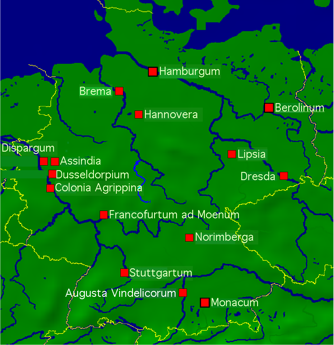 Cities in Germany with Latin place names.